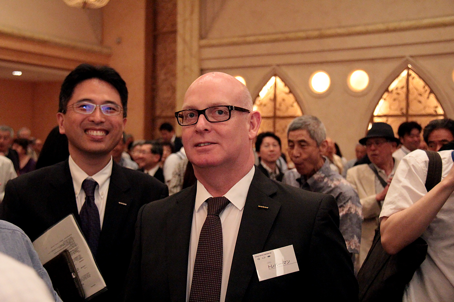 Trevor Mann EVP Nissan, at Nissan's shareholder meeting, June 24, 2014 in Yokohama